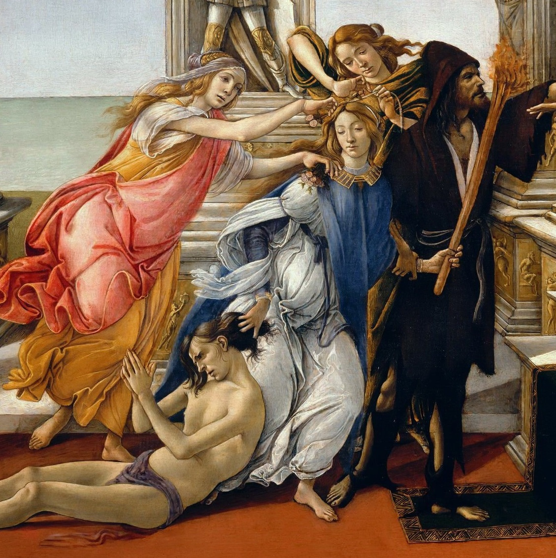 Botticelli made this painting on the description of a painting by Apelles, a Greek painter of the Hellenistic Period. Apelles' works have not survived, but Lucian recorded details of one in his On Calumny: On the right of it sits Midas with very large ears, extending his hand to Slander while she is still at some distance from him. Near him, on one side, stand two women—Ignorance and Suspicion. On the other side, Slander is coming up, a woman beautiful beyond measure, but full of malignant passion and excitement, evincing as she does fury and wrath by carrying in her left hand a blazing torch and with the other dragging by the hair a young man who stretches out his hands to heaven and calls the gods to witness his innocence. She is conducted by a pale ugly man who has piercing eye and looks as if he had wasted away in long illness; he represents envy. There are two women in attendance to Slander, one is Fraud and the other Conspiracy. They are followed by a woman dressed in deep mourning, with black clothes all in tatters—she is Repentance. At all events, she is turning back with tears in her eyes and casting a stealthy glance, full of shame, at Truth, who is slowly approaching.it=L'opera è ispirata al celebre perduto dipinto di Appelle descritto dalli scrittore greco Luciano nel "De Calumnia" e da Leon Battista Alberti nel "De Pictura". La scena raffigura, da destra, il Re Mida mal consigliato dal Sospetto e dall'Ignoranza, il Livore come un uomo barbato col cappuccio, la Calunnia - con una face - che trascina il calunniato, la Frode e l'Insidia dietro di lei, e la Penitenza come una vecchia in abiti laceri che guarda alla Verità nuda e con lo sguardo levato al cielo.